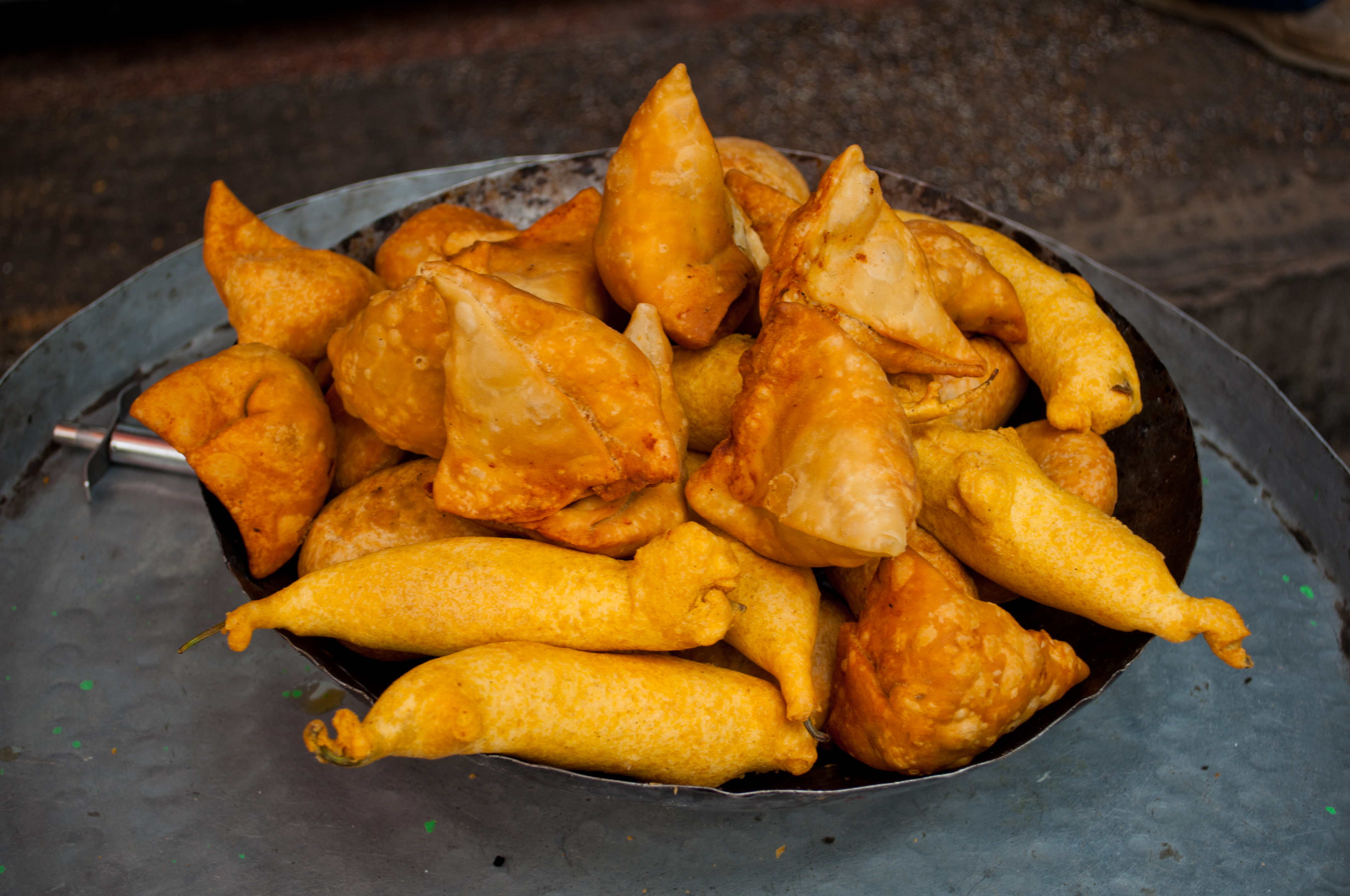 Samosas are the triangular folded and sealed dough crepe-like food with stuffing inside. Once stuffed and sealed, they are fried to a golden brown crust. Pakoras are batter mixed with veggie, then fried. The stuffing can be anything - veggie mix, cooked meat, cooked fish, left overs, mash or pastes, sweets, etc. Samosas and pakoras are fair, farmer market, festive occasion, party food in India. Now found in many parts of the world. Above: Samosas and pakoras in Jaipur street, India.